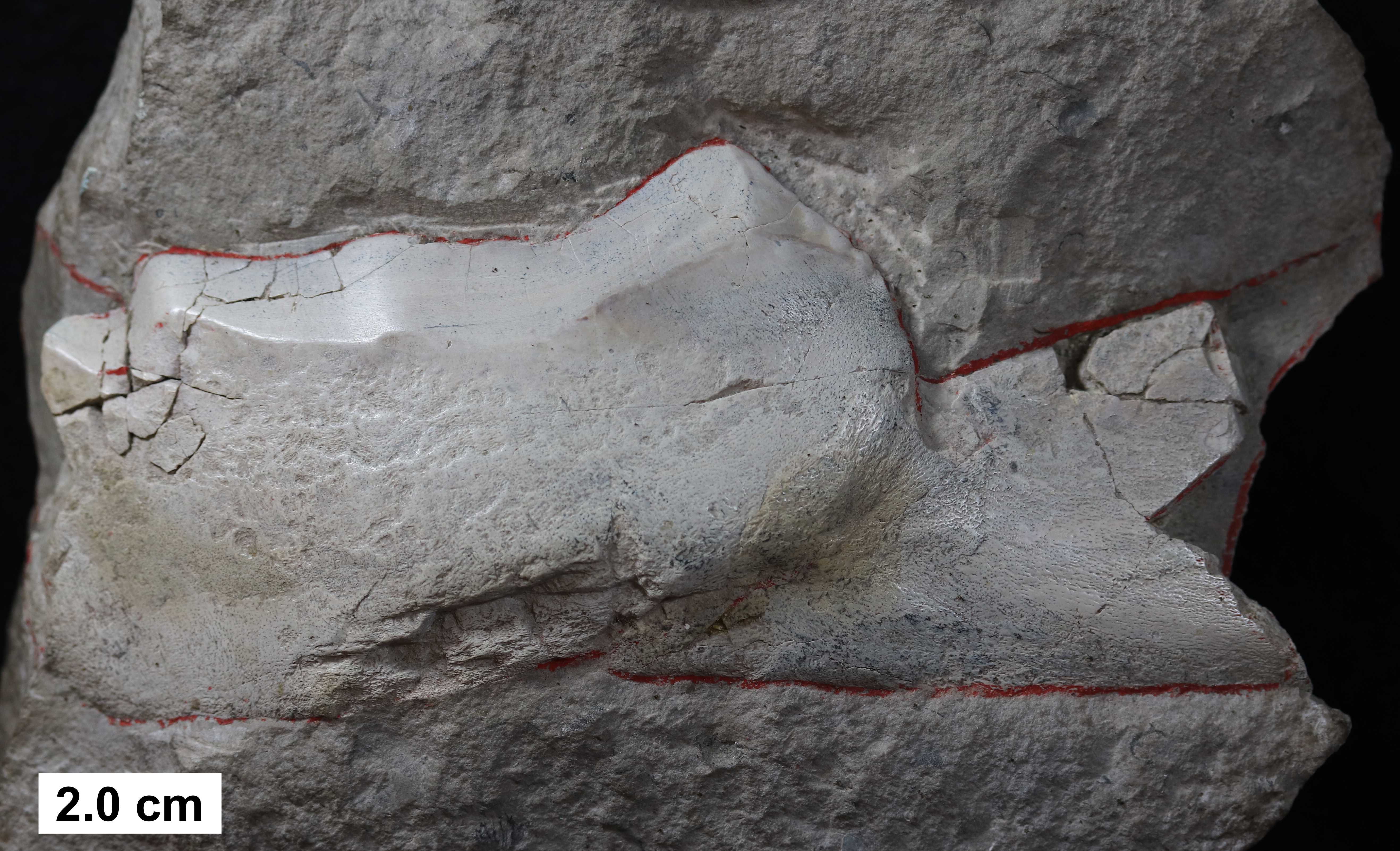 The IG plate (lower jaw) of the Devonian placoderm Eastmanosteus pustulosus; Milwaukee Formation; Berthelet Member; Milwaukee County, Wisconsin; collected by C.E. Monroe; MPM 468; photograph originally published in K.C. Gass, J. Kluessendorf, D.G. Mikulic, and C.E. Brett, 2019. Fossils of the Milwaukee Formation: A Diverse Middle Devonian Biota from Wisconsin, USA. Siri Scientific Press, Manchester, UK.